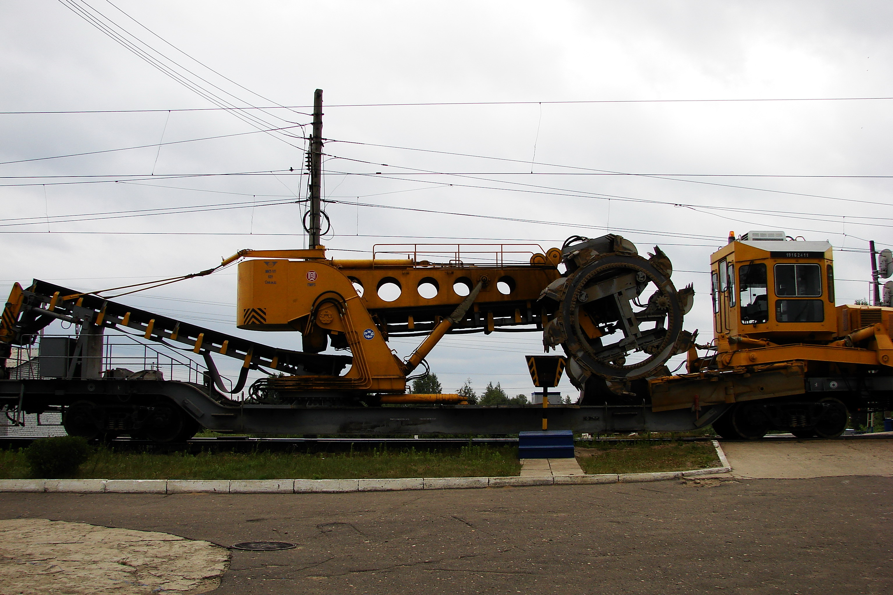 Russian railways Maintenance of way vehicle